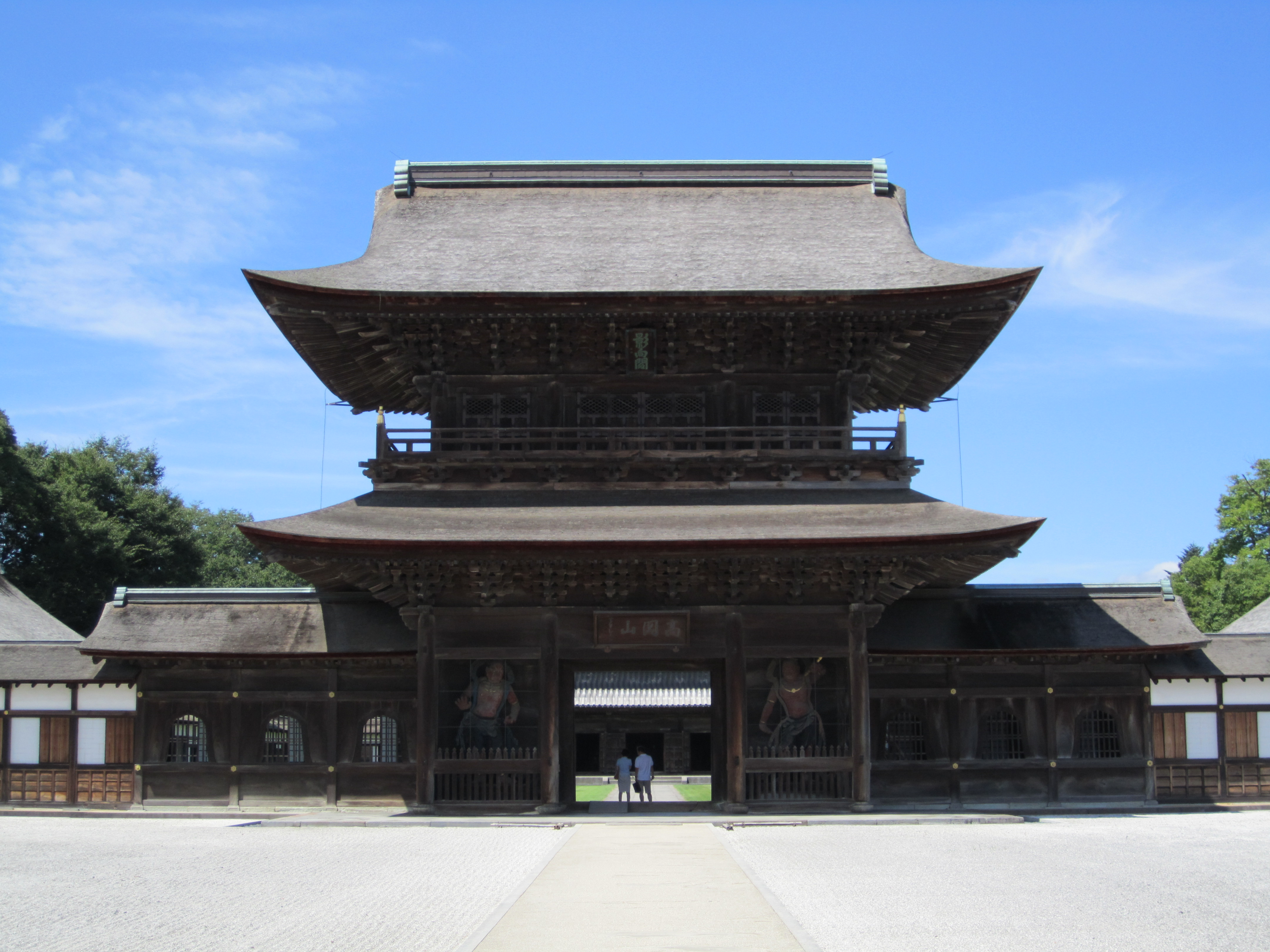 Sanmon, Zuiryuji Temple